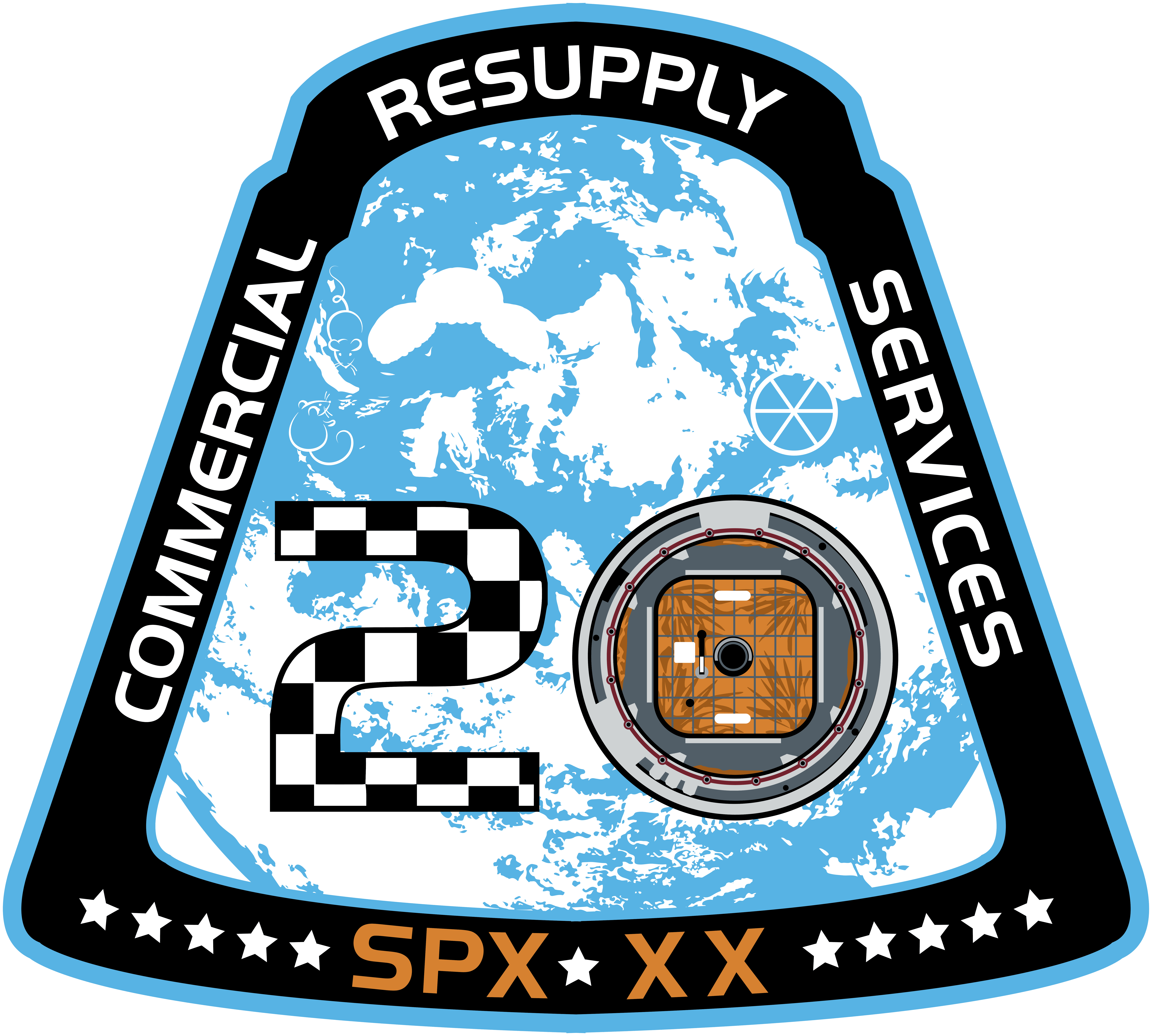 The NASA insignia for SpaceX's CRS-20 (SpX 20) Dragon cargo flight (plus mice) to the International Space Station